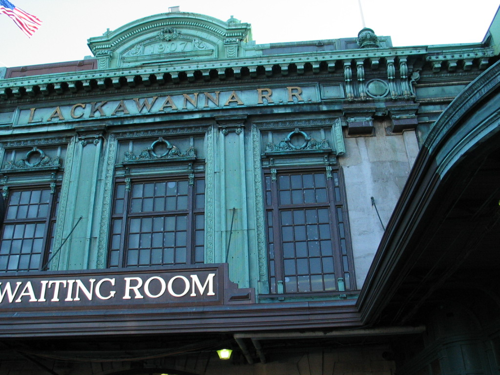 Homeken Terminal the waiting room entrance